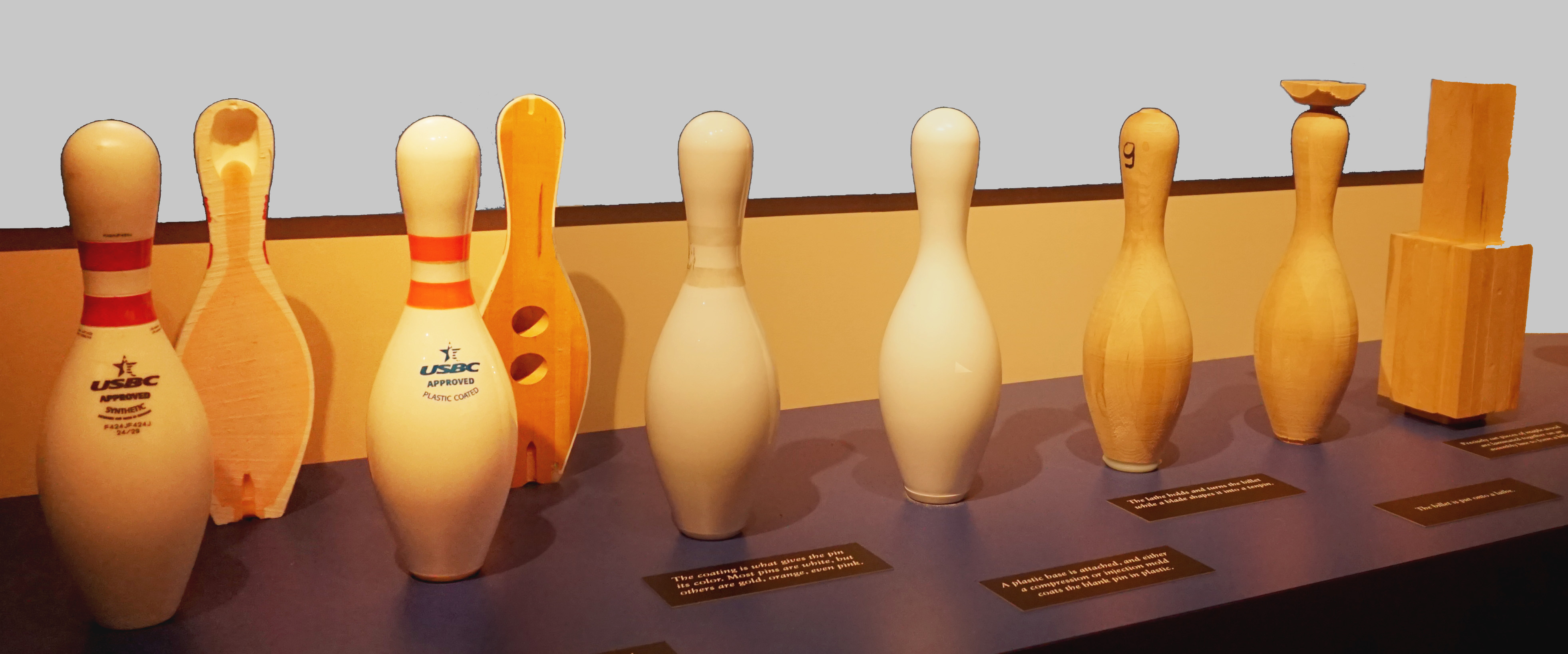 Pins for ten-pin bowling, shown at several stages in the manufacturing process.